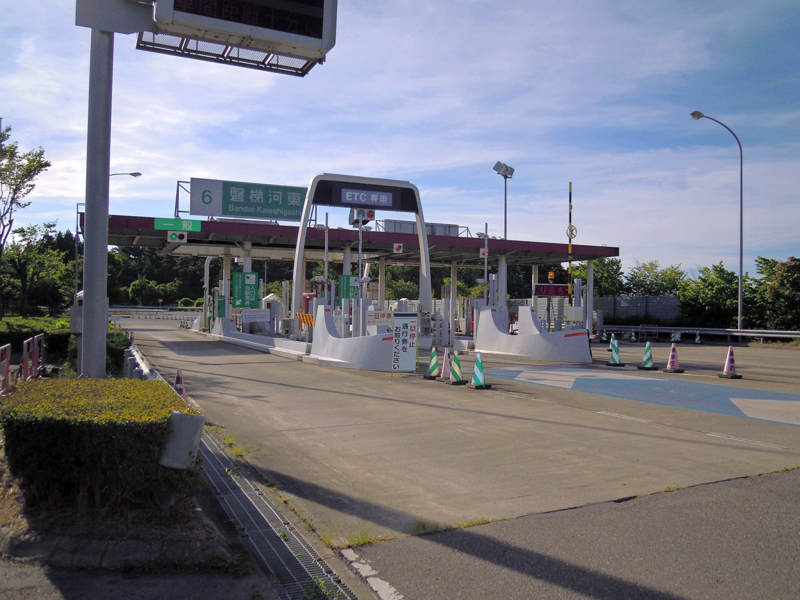 This Interchange, Bandai-Kawahigashi Interchange, is on Ban'etsu Expressway, in Aizuwakamatsu City, Fukushima Prefecture, Japan.